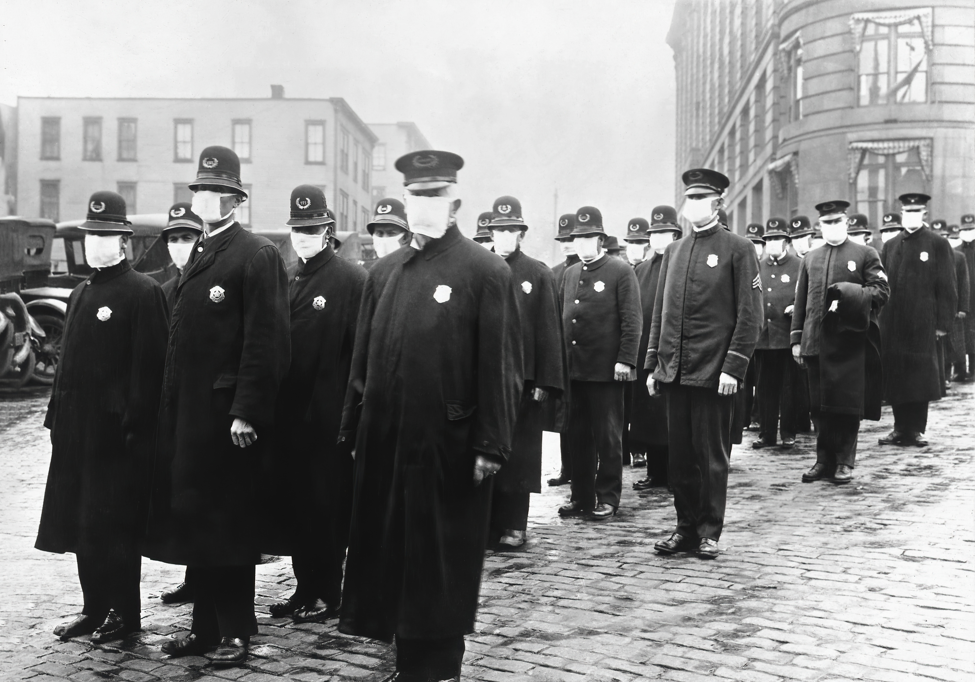 Policemen in Seattle wearing masks made by the Red Cross, during the influenza epidemic. December 1918.